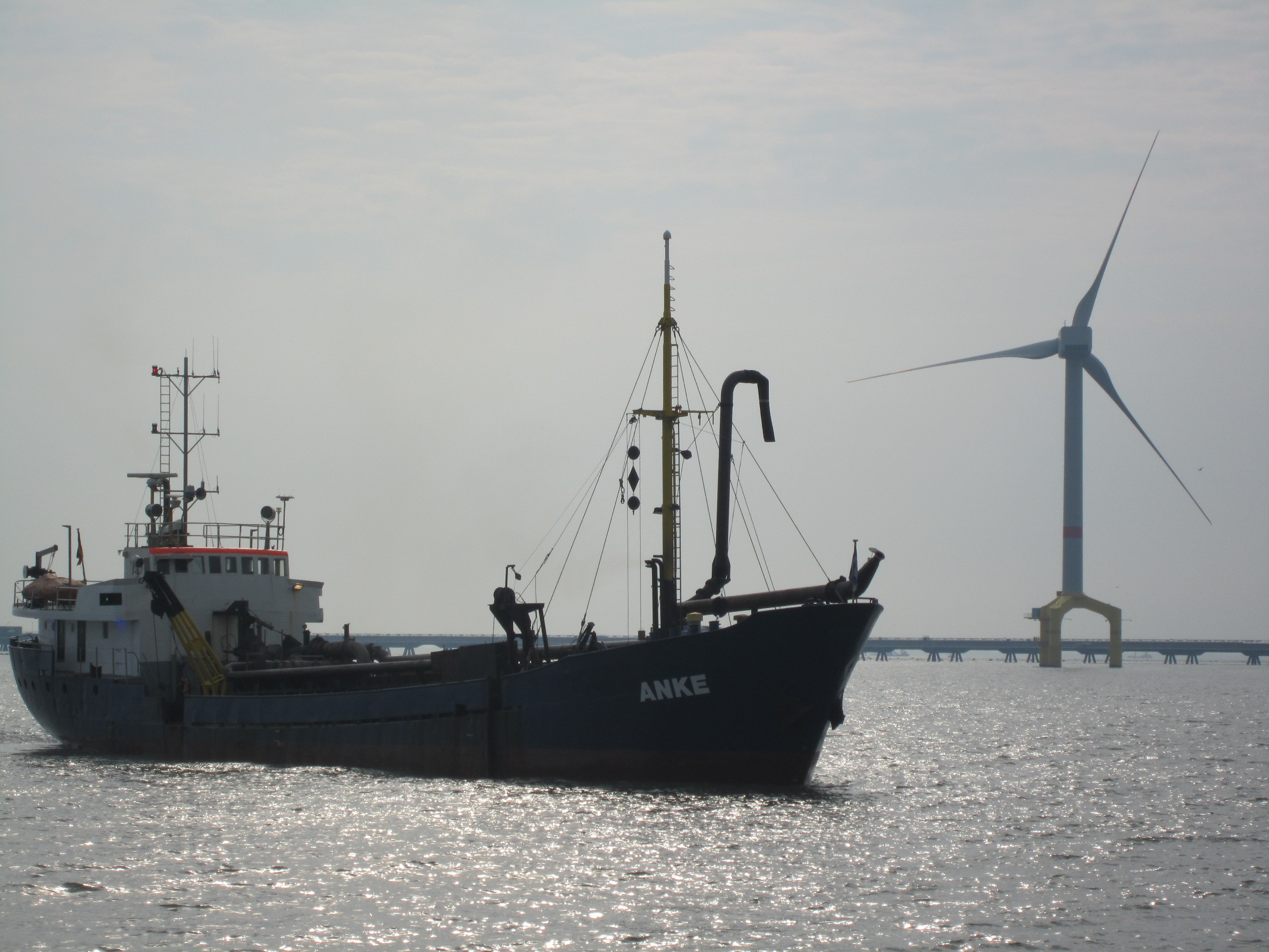 Sludge sucker ship "Anke" in front of the INEOS Tanker Jetty and a wind power facility in the entrance of Hooksiel port